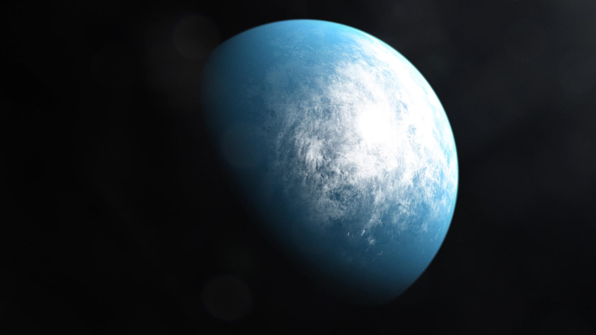 TOI 700, a planetary system 100 light-years away in the constellation Dorado, is home to TOI 700 d, the first Earth-size habitable-zone planet discovered by NASA's Transiting Exoplanet Survey Satellite. For more information on TESS, visit: and